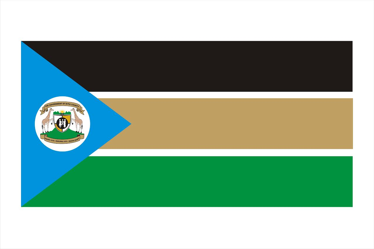 This if the flag of Kitui County, one of the 47 counties of the republic of Kenya